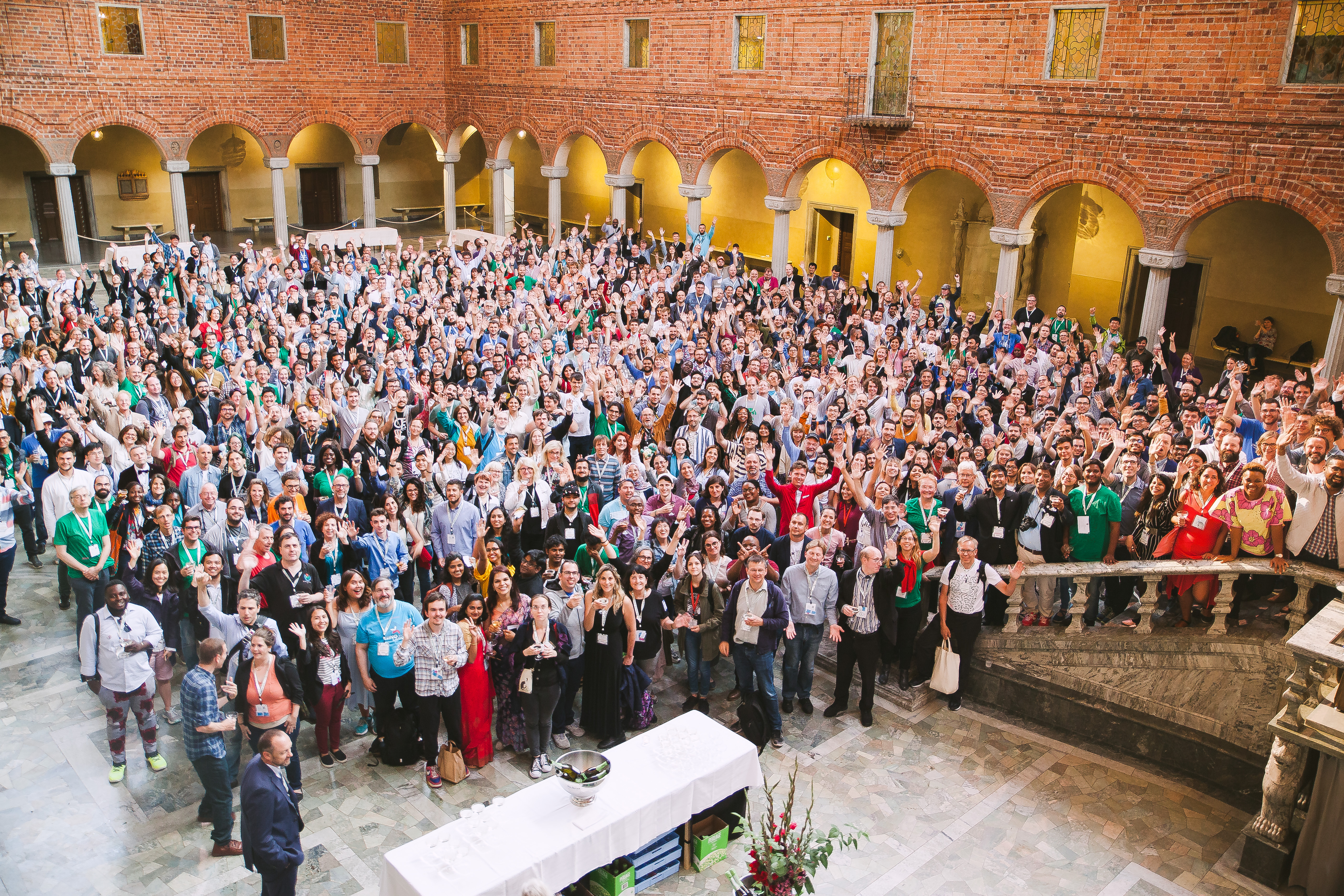 Official group photo of Wikimania 2019